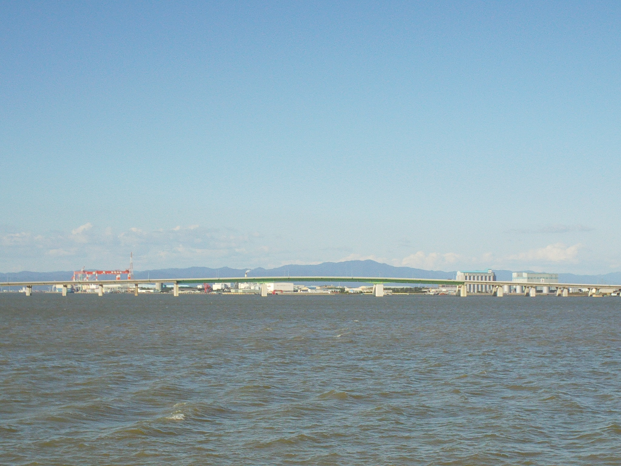 The Mikawako Bridge (Mikawako-ohashi) on the Aichi Prefectural Road Route 2